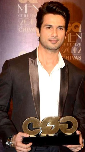 Shahid Kapoor at GQ Men of the Year 2012